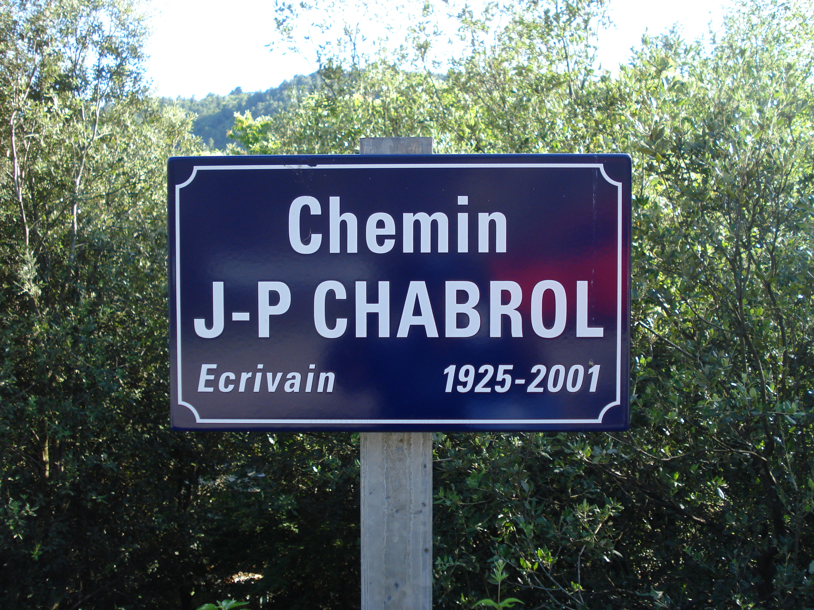 Rue Jean-Pierre Chabrol at Pont-de-Rastel, entre Génolhac et Chamborigaud (Gard, Fr).